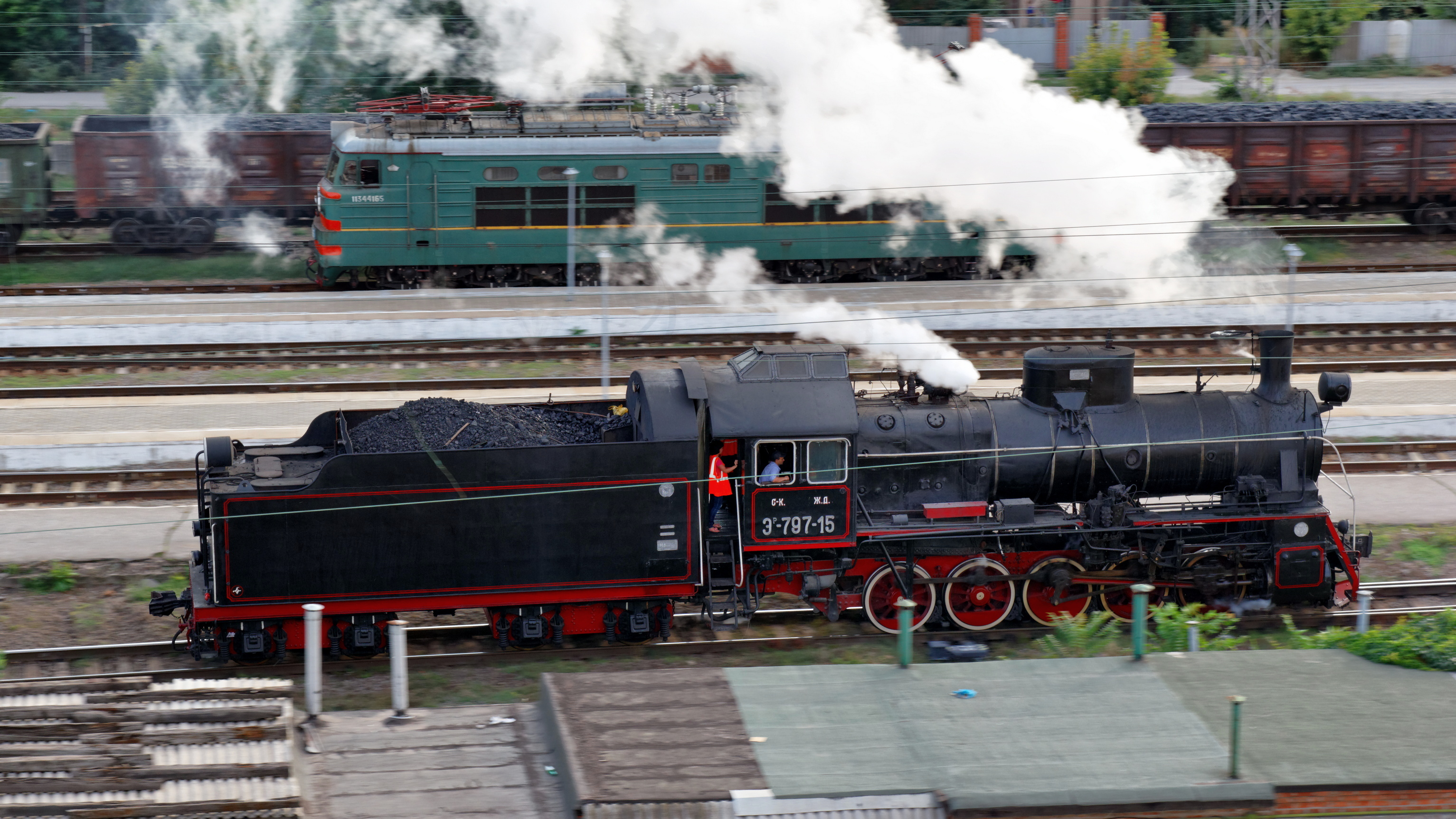 ER 797-15 steam locomotive at the station "Taganrog-II"